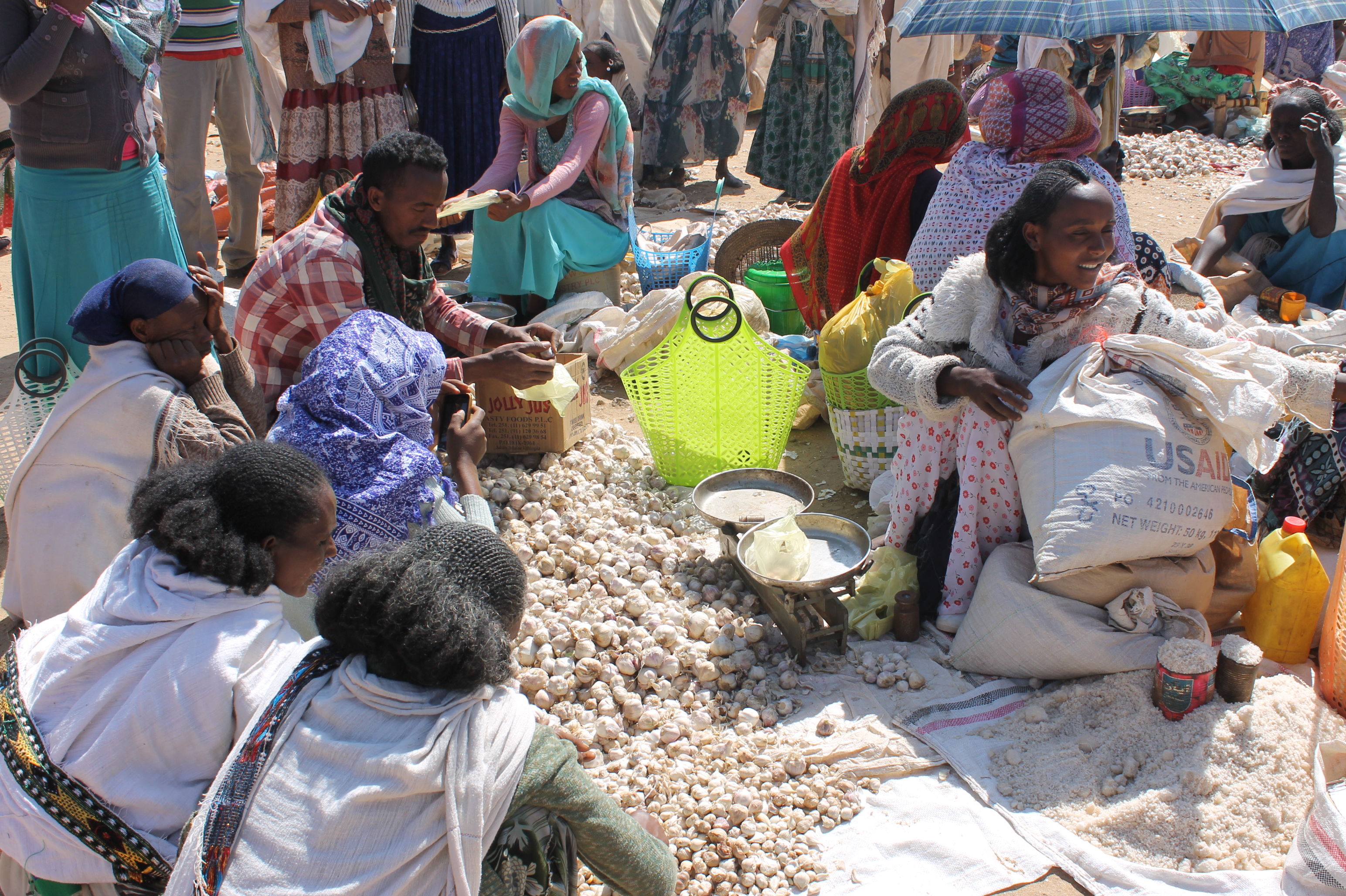 This is an image of "African people at work" from Ethiopia